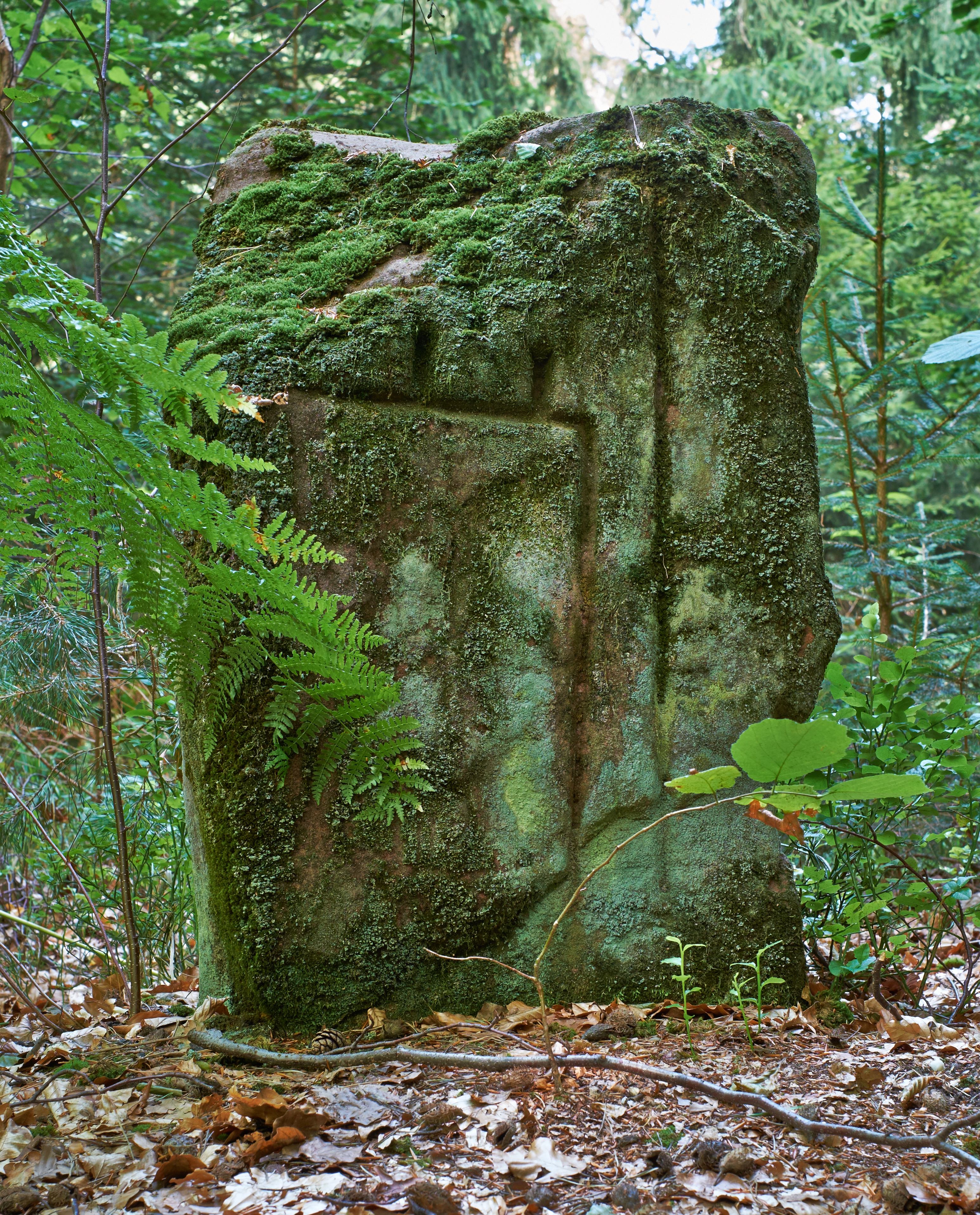 Boundary stones Mundatsteine in the Bienwald, Rhineland-Palatinate, Germany